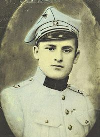 Polish Soldier of Blue Army